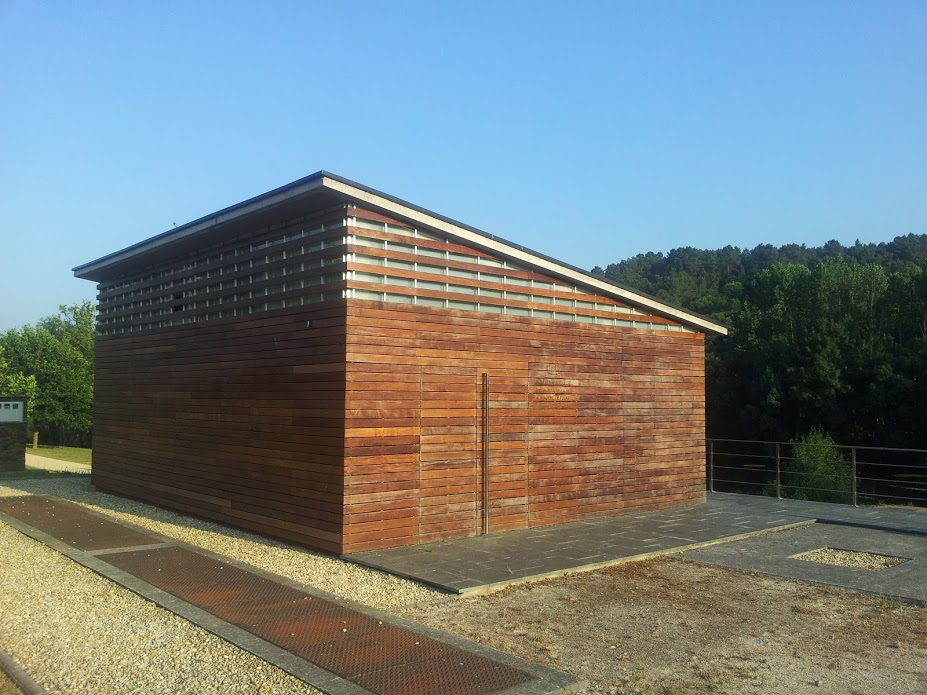 Stormwater tank near Miño river (Lugo, Spain).